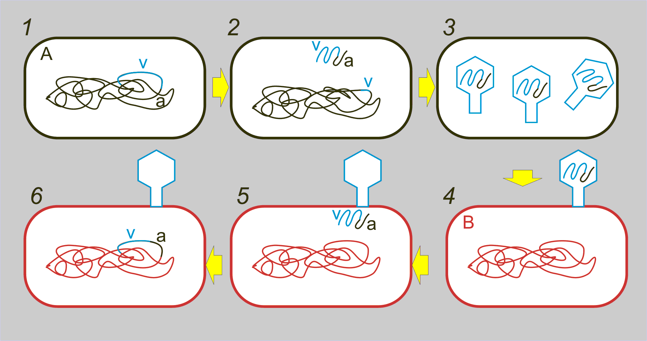 Diagram of special transduction